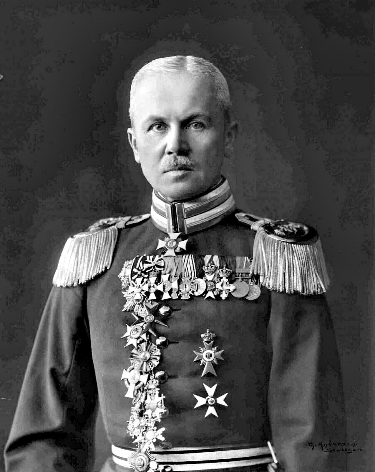 Portrait photography of Friedrich Bronsart von Schellendorf (1864-1950) after his promotion to colonel, rank in which he was appointed commander of the Grenadiers Regiment "Queen Olga" (1st Württembergian) No. 119, regiment whose uniform he wears, in october 1912.